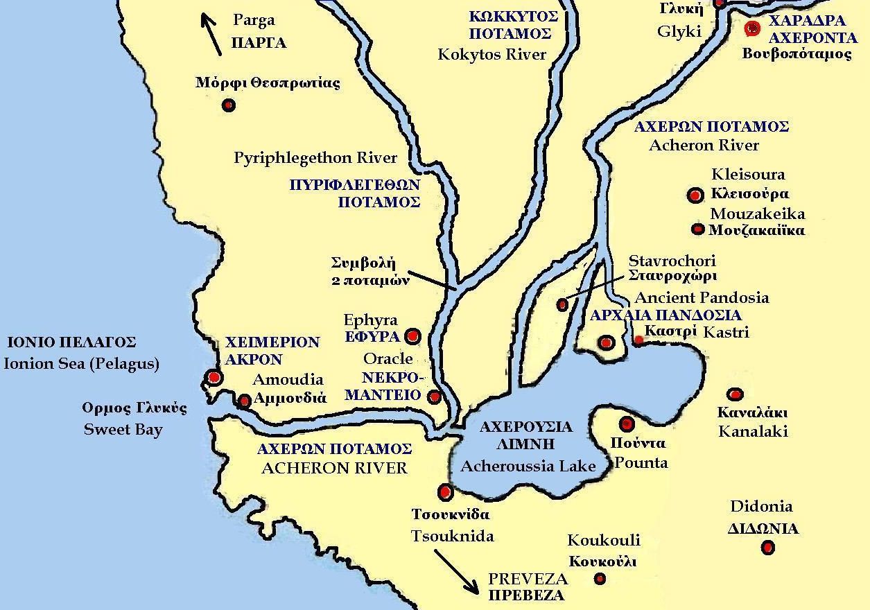 Acheroussia Lake in antiquity, before draining